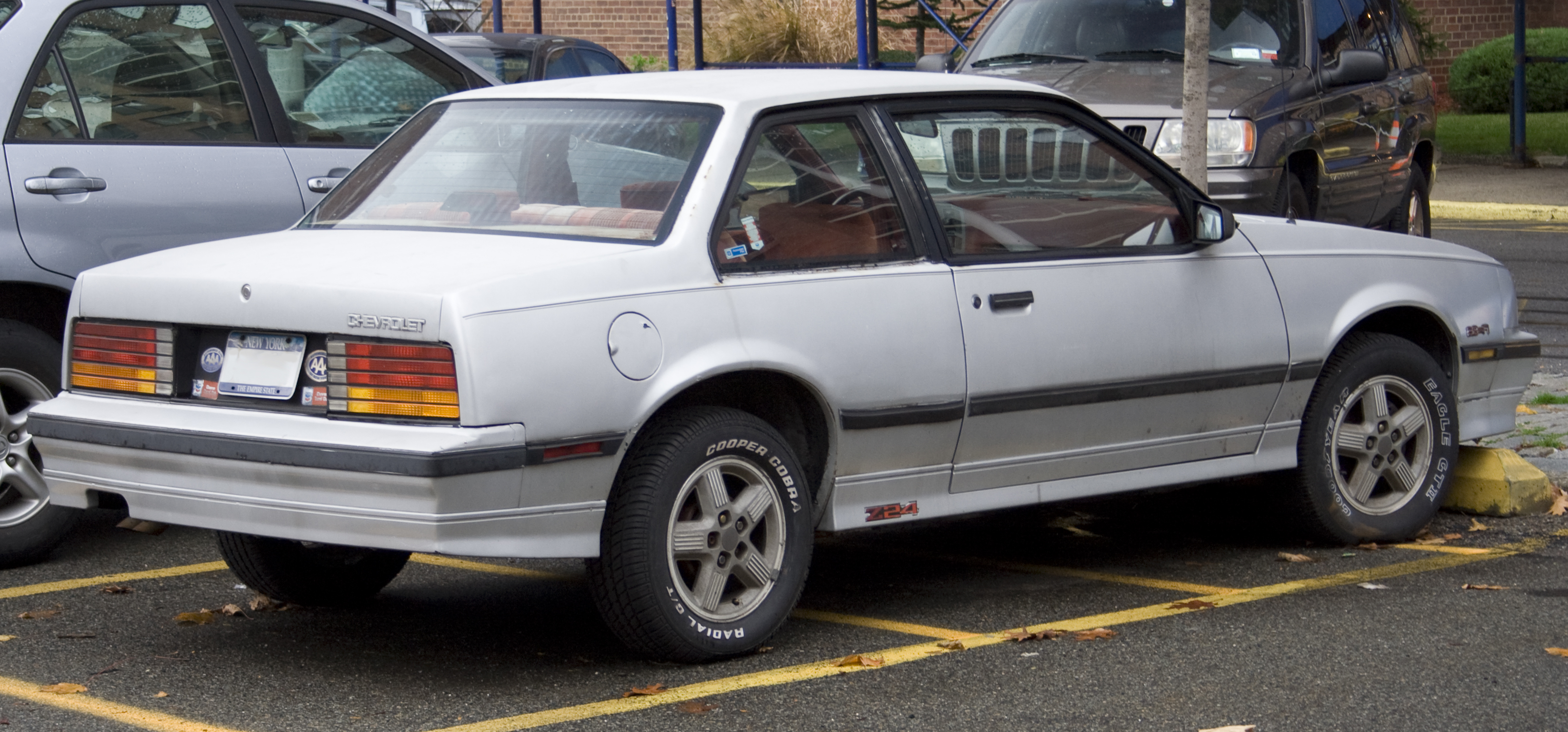 1986 Chevrolet Cavalier Z24 Coupé, with the 2.8 liter V6